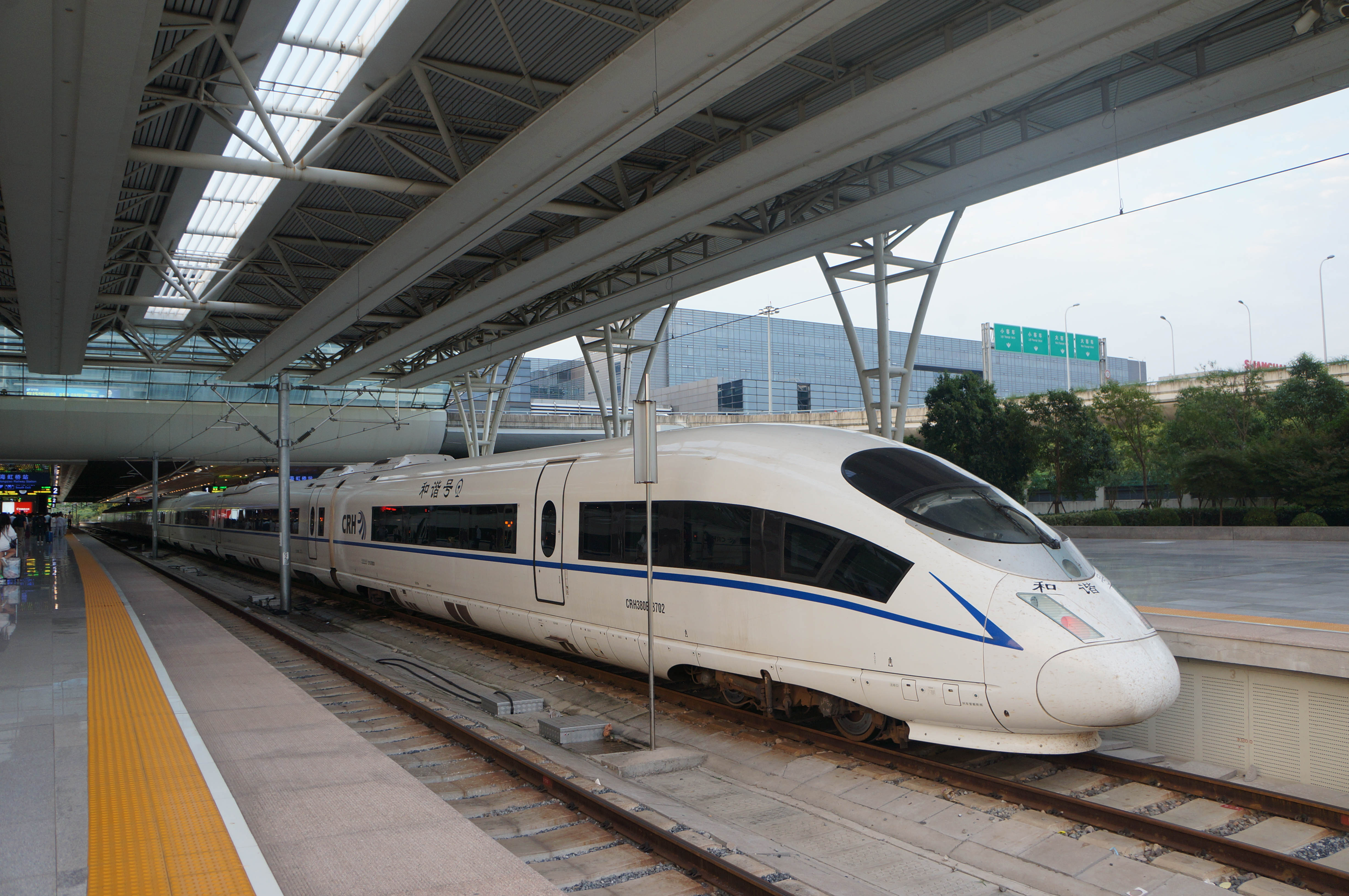 201609 G160 waits for departure at Shanghai Hongqiao Station, it used to be the last train on BJ–SH HSR before the G8 started to operate